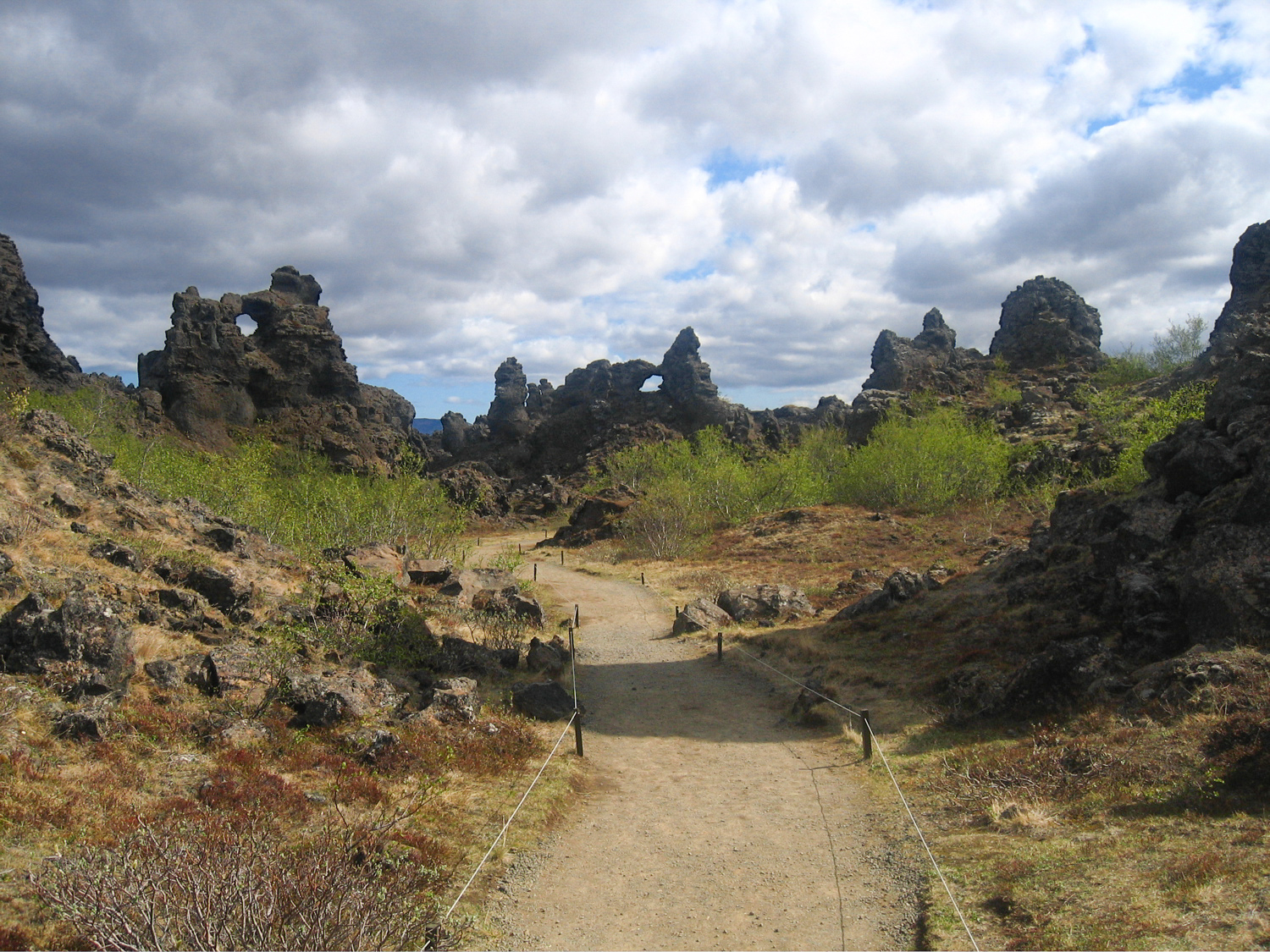 Lýsing Taken by Gestur Pálsson in July 2005 in Dimmuborgir, North Iceland.